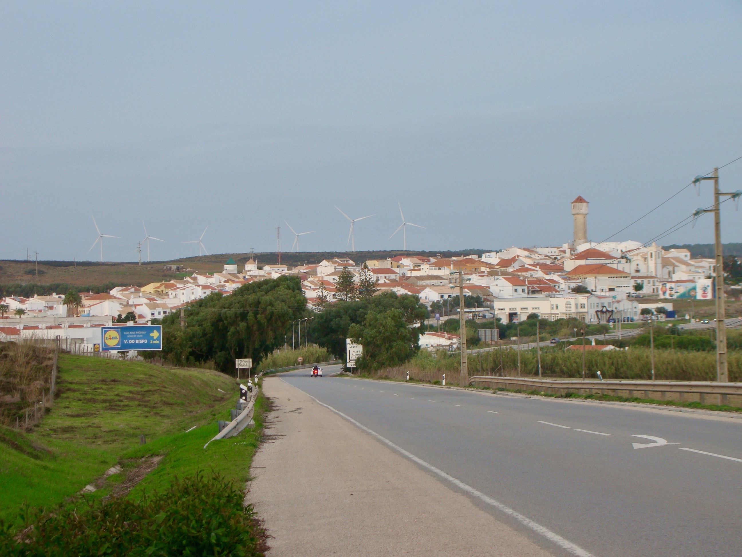 Partial view of the town of Vila do Bispo, in the region of Algarve, in southern Portugal.